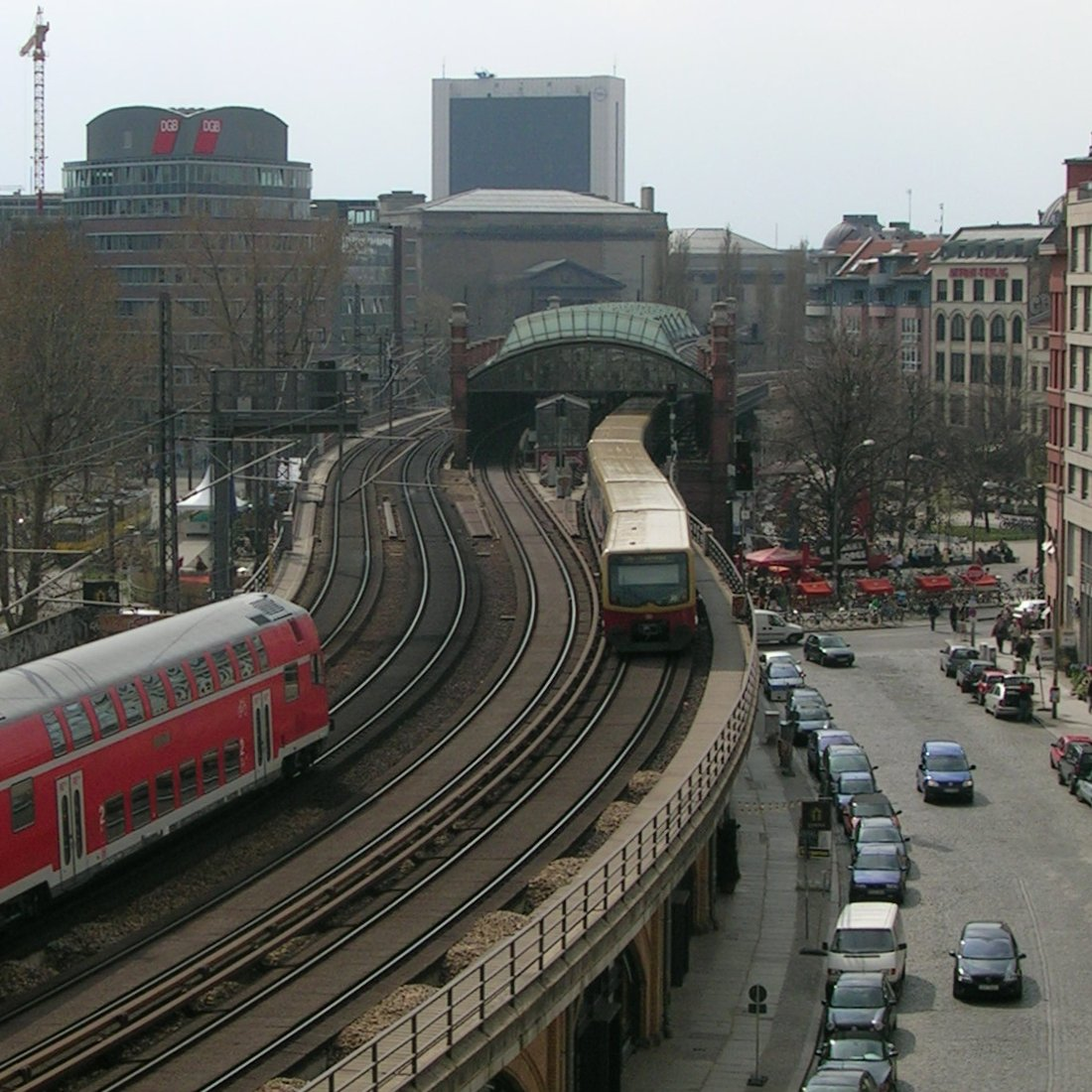 The metro railway station Hackescher Markt in Mitte, Berlin, view from the east.